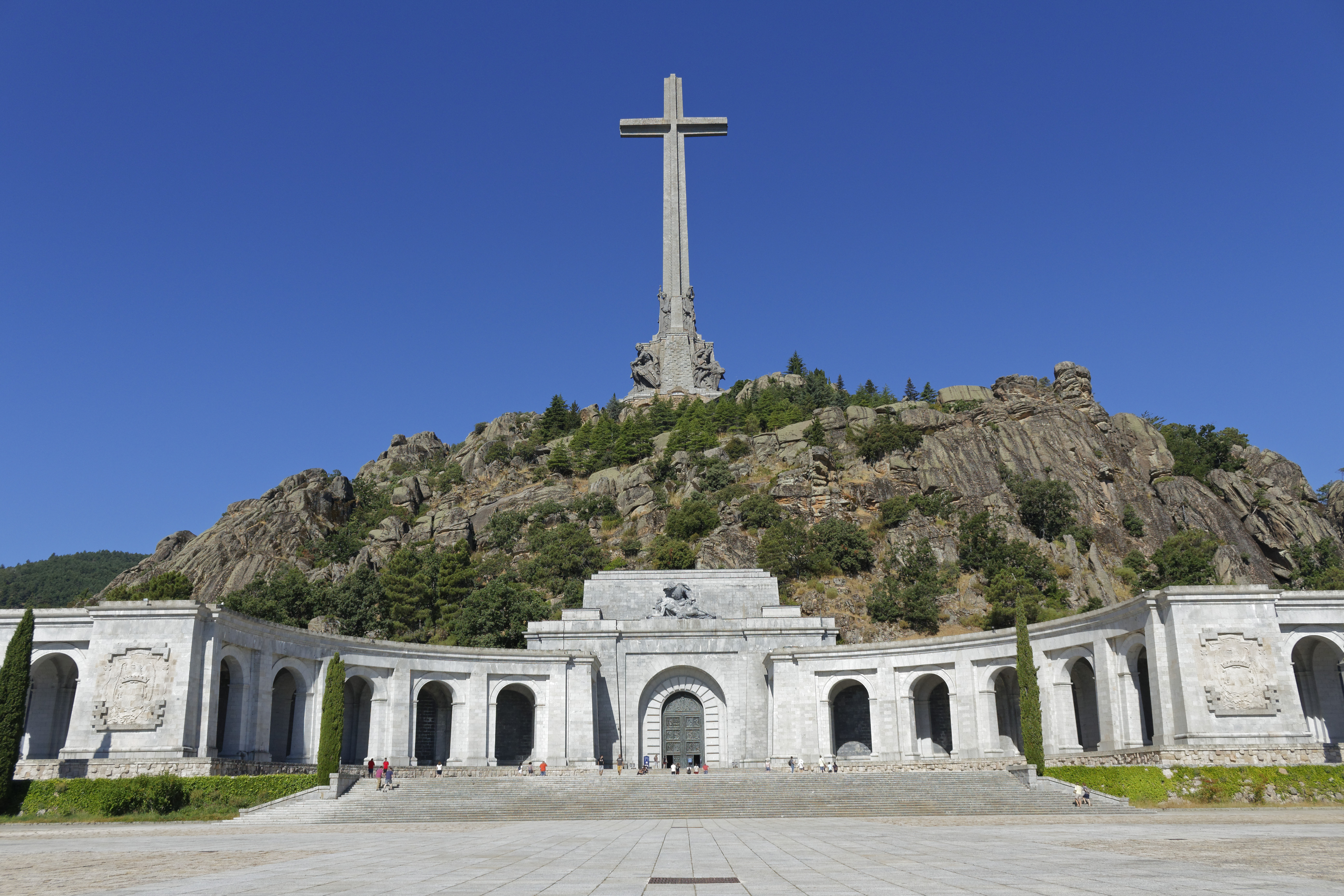 Valle de los Caídos (San Lorenzo de El Escorial, Community of Madrid, Spain).